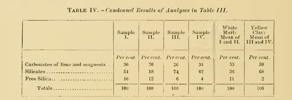 Table 4 Condensed Results of Analyses in Table III